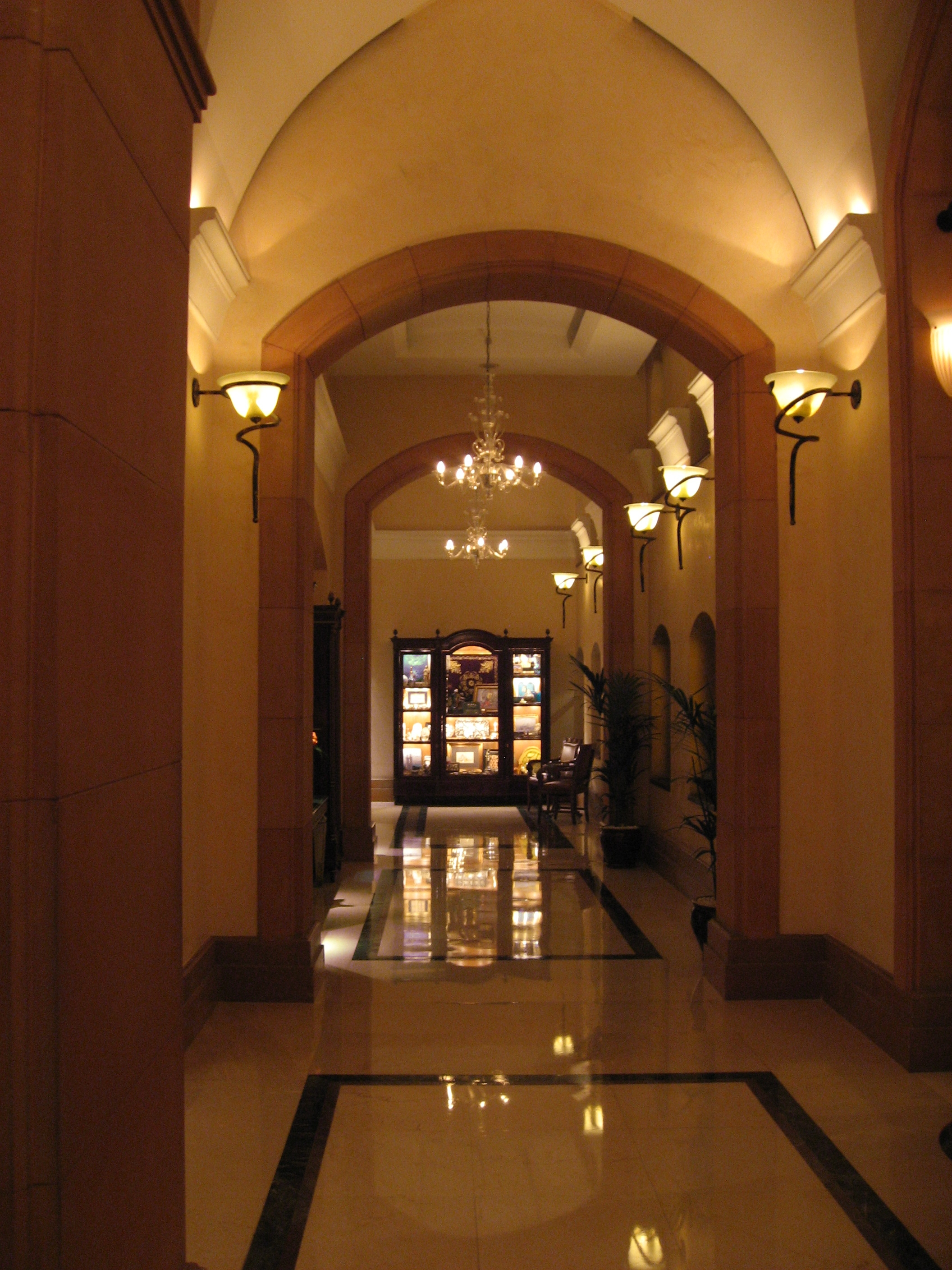 The Four Seasons Hotel in Sultanahmet, a former Ottoman jail next to the Hagia Sophia.